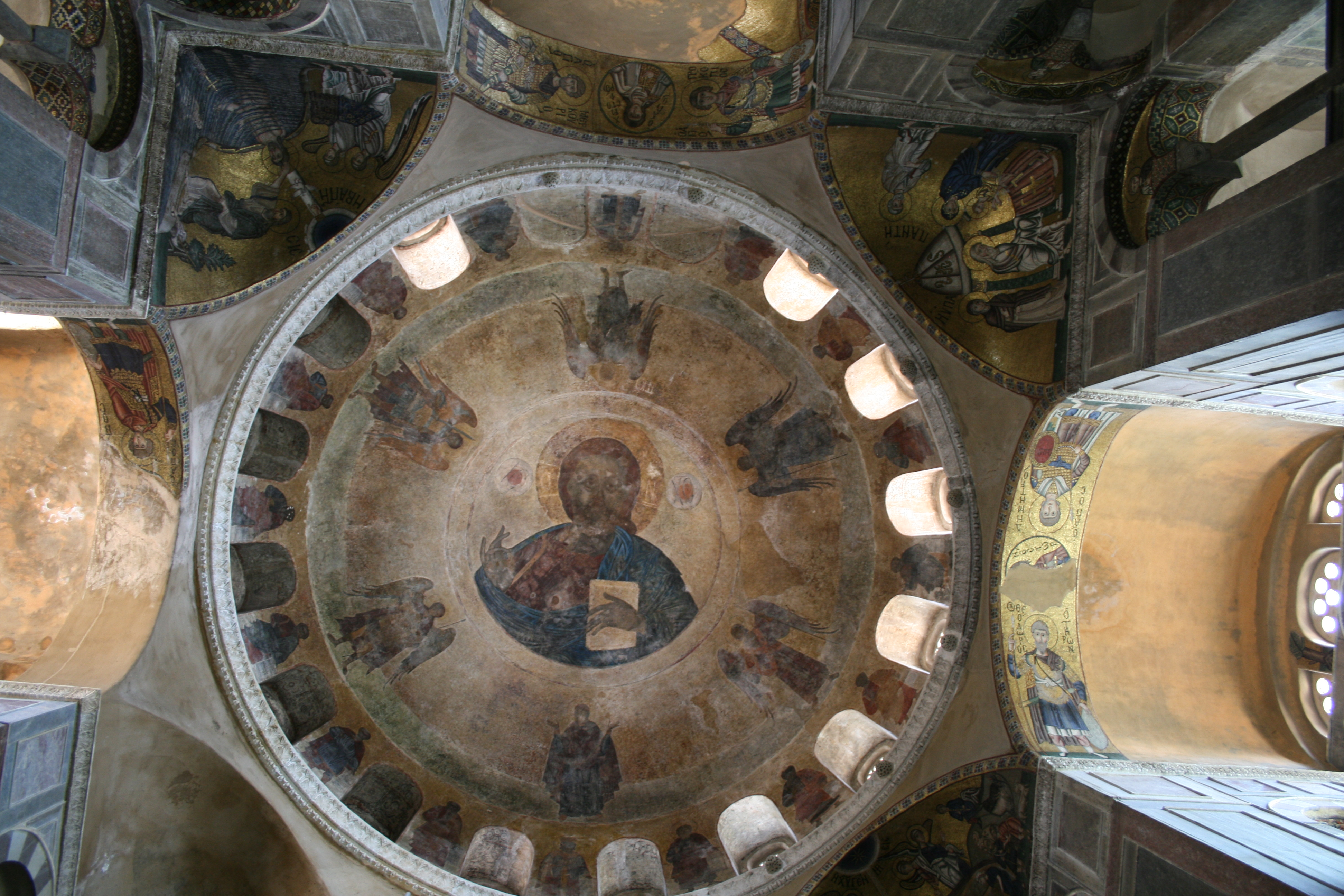 Hosios Lukas, Greece